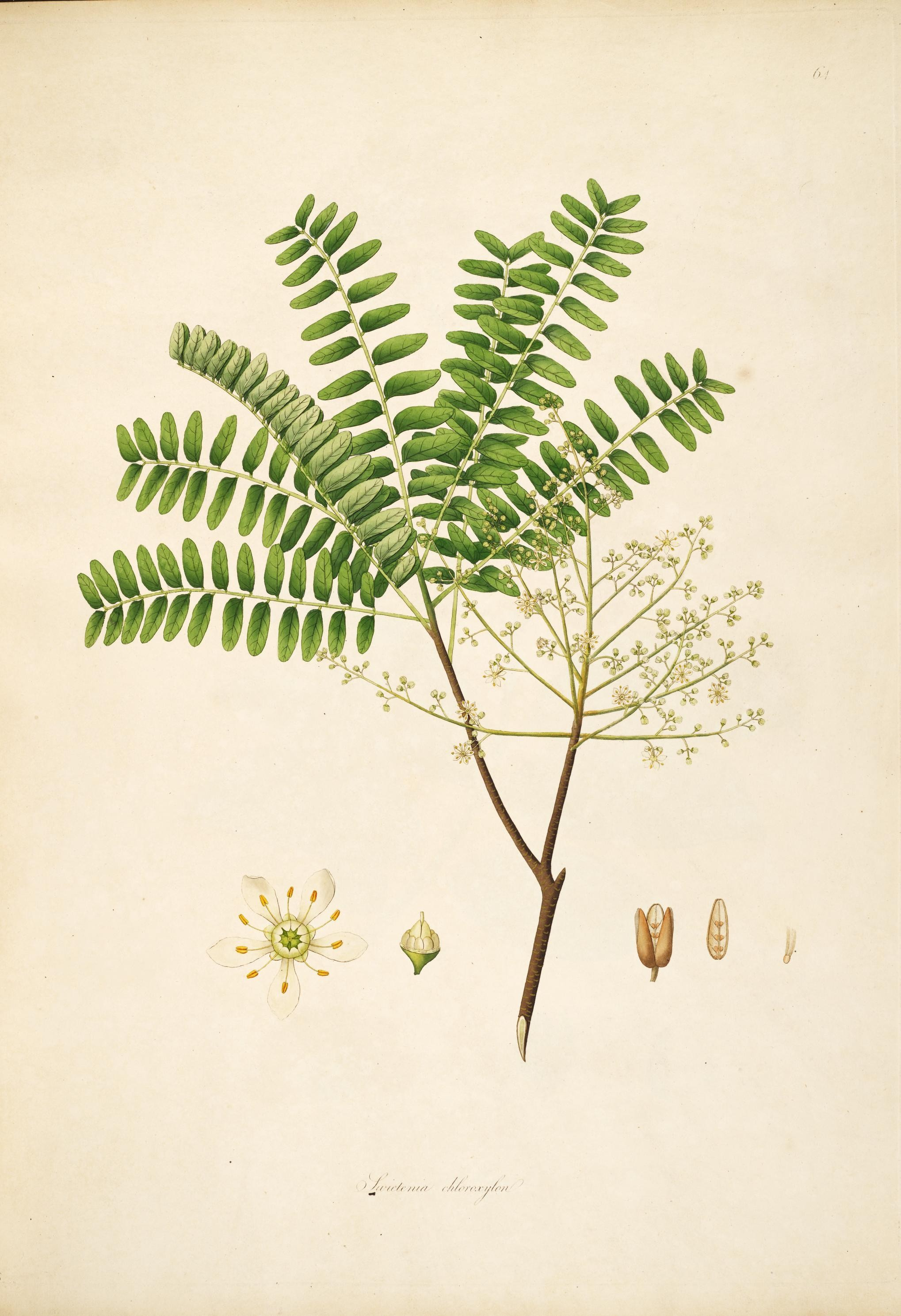 Plants of the coast of Coromandel :. London :Printed by W. Bulmer and Co. for G. Nicol, Bookseller,1795-1819.. For this 1795 publication with detailed text description on flora in India, see William Roxburgh, Plants of the coast of Coromandel - Volume 1 Coromandel coast stretches from Tamil Nadu to Andhra Pradesh states of India The scientific botanical name is at the bottom of the illustration plate. This 18th century illustration qualifies for PD-Art license.